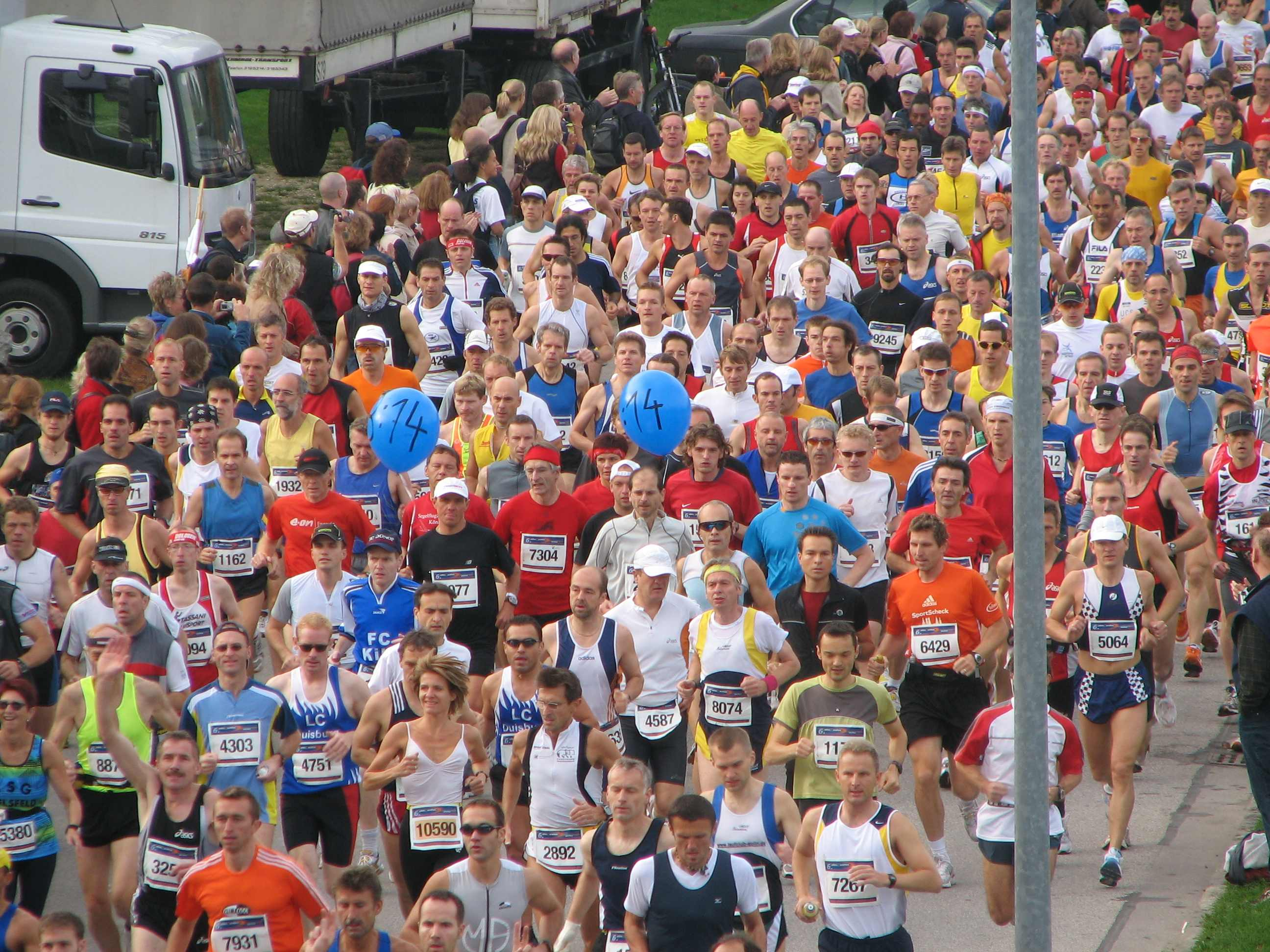 Munich Marathon 2005: Start Block A, Munich, Bavaria.